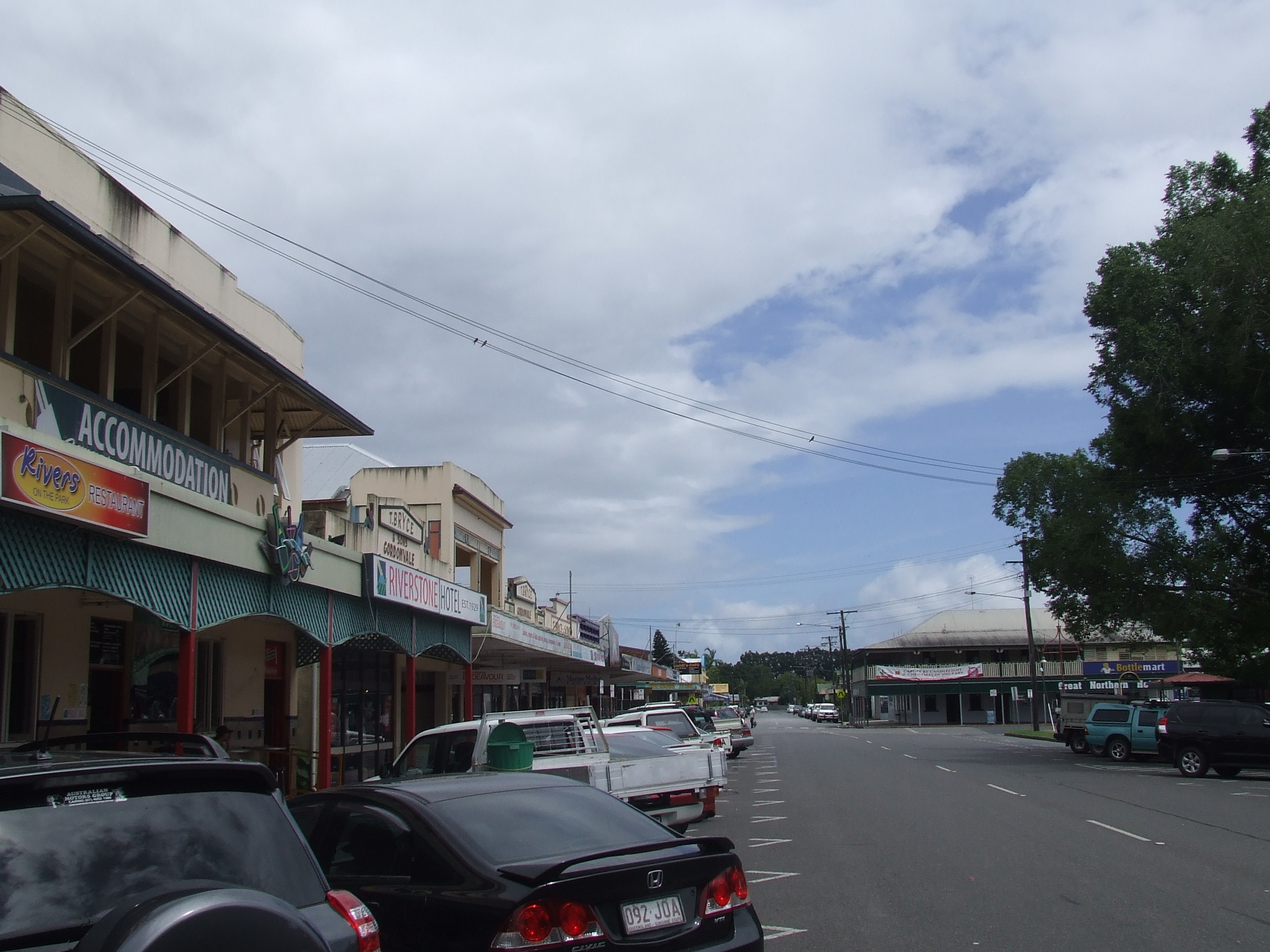 The largest street in Gordonvale, QLD. Located beside the public park.